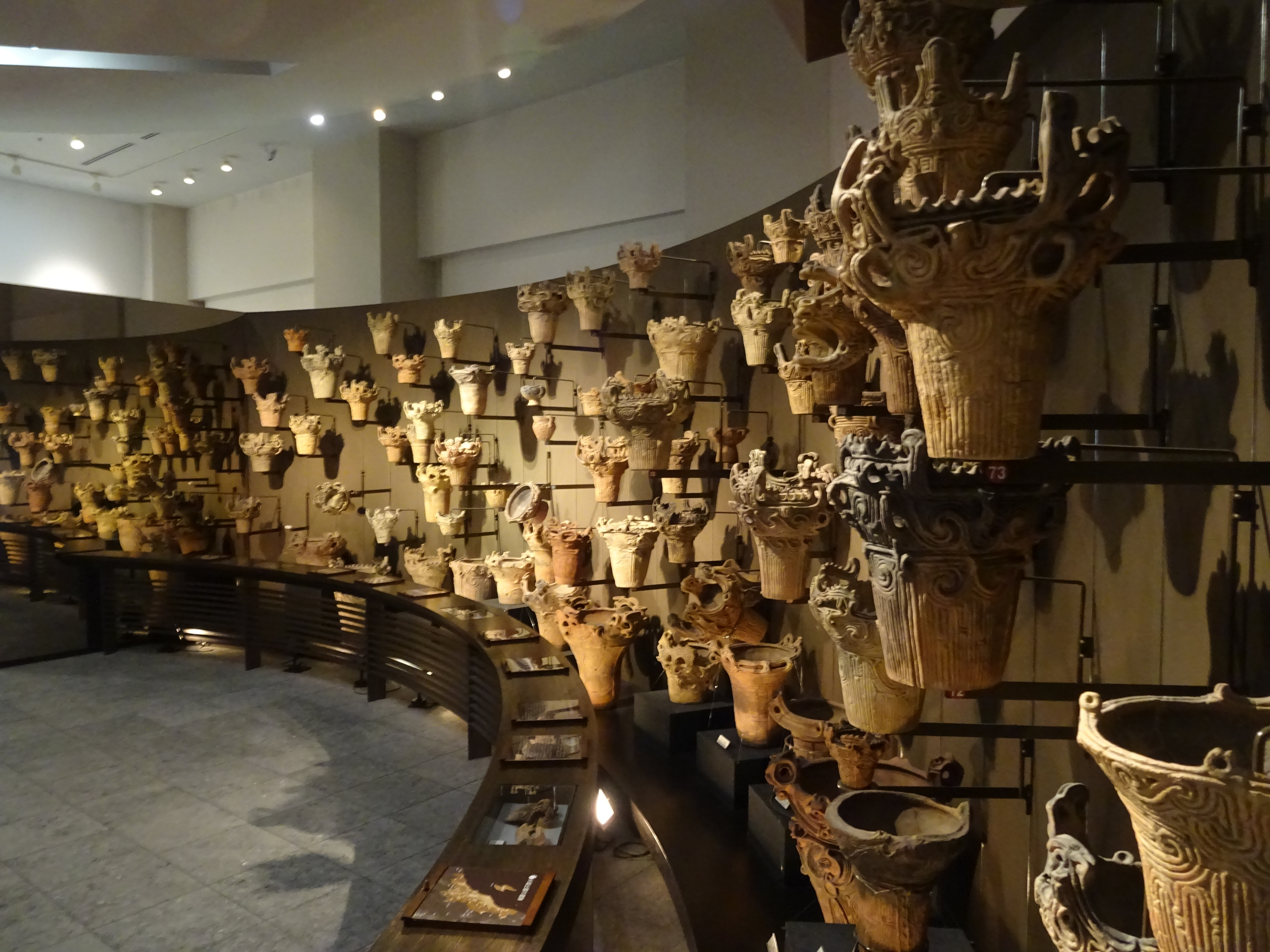 Flame type pottery, Niigata Prefectural Museum of History